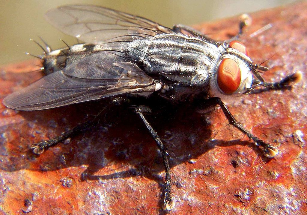 jpeg image, female flesh fly Sarcophaga spec.. Identification by Thomas Pape, University of Copenhagen